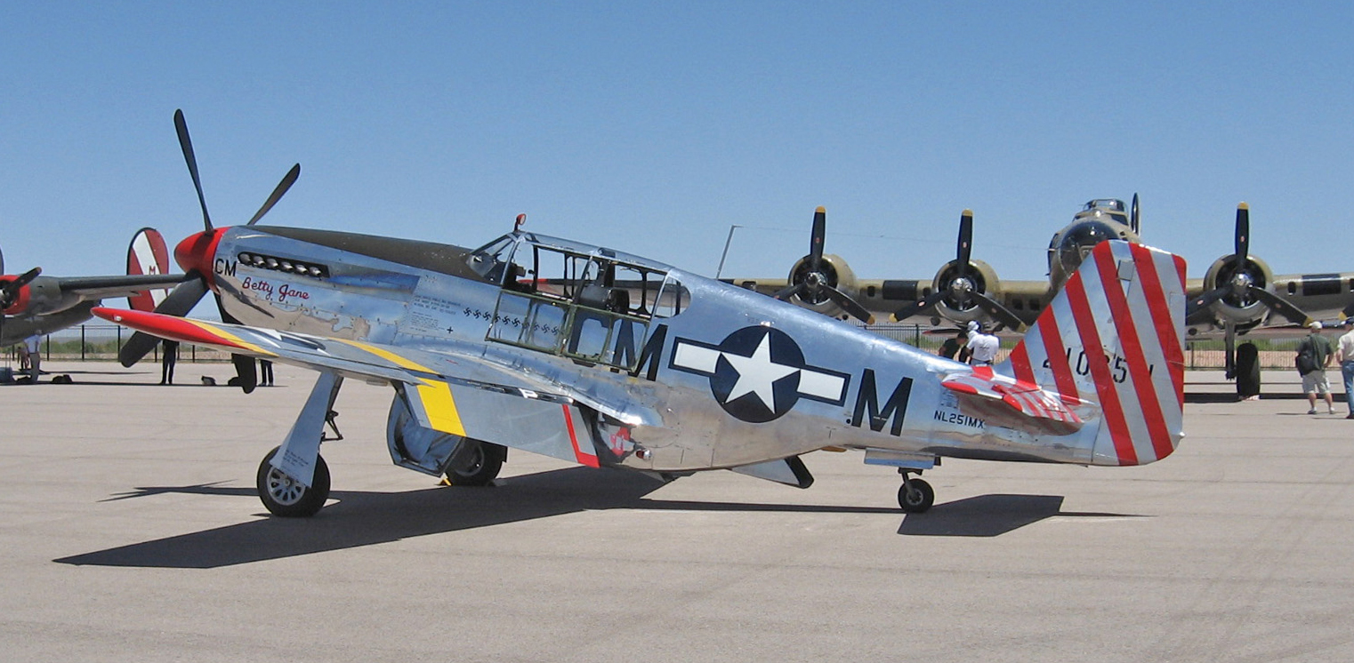 Dual control P-51C "Betty Jane" operated by the Collings Foundation.